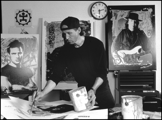 Jim Evans painting